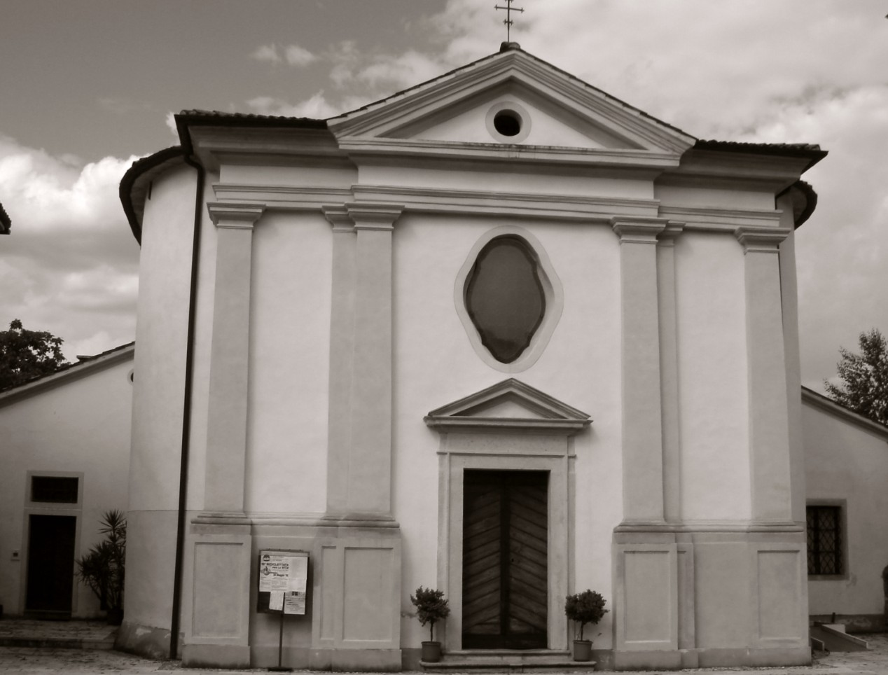 Campea: chiesa